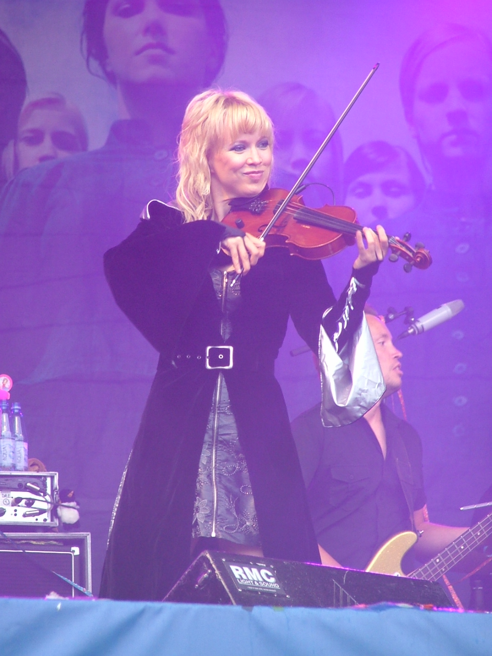 Finnish folk rock band Lauri Tähkä & Elonkerjuu live